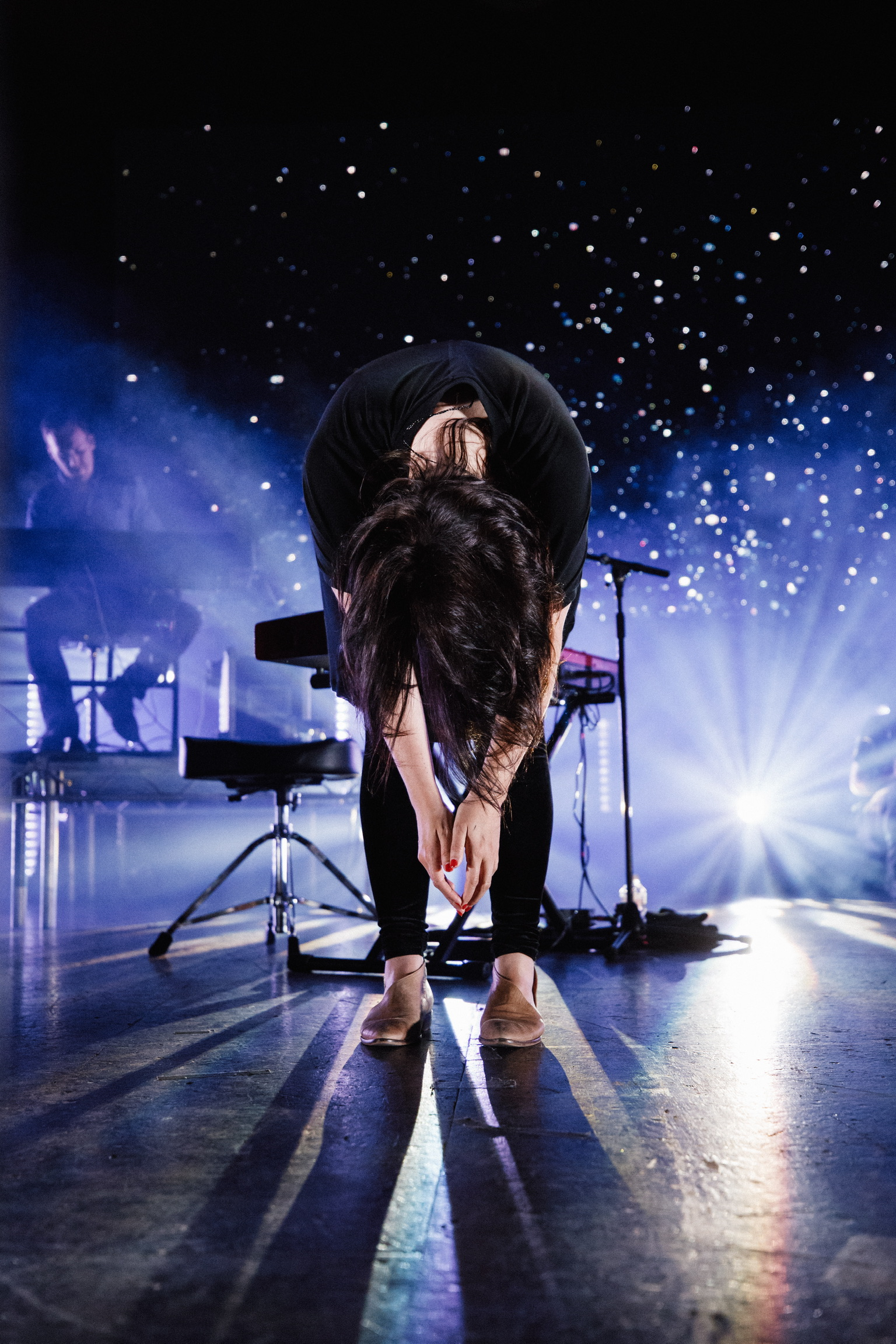 Live picture of Amanda Lindsey Cook in concert